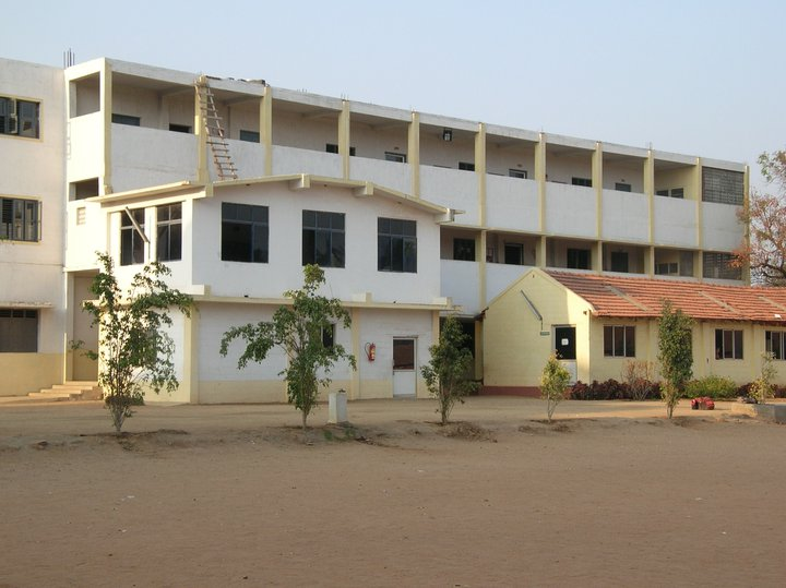 Main Building